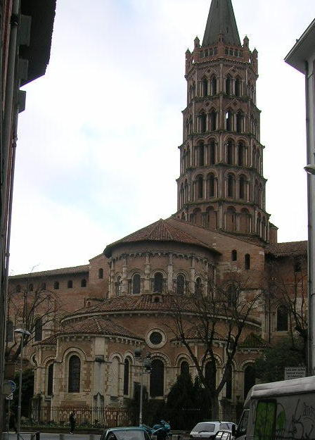 View of the back side of the building and the tower